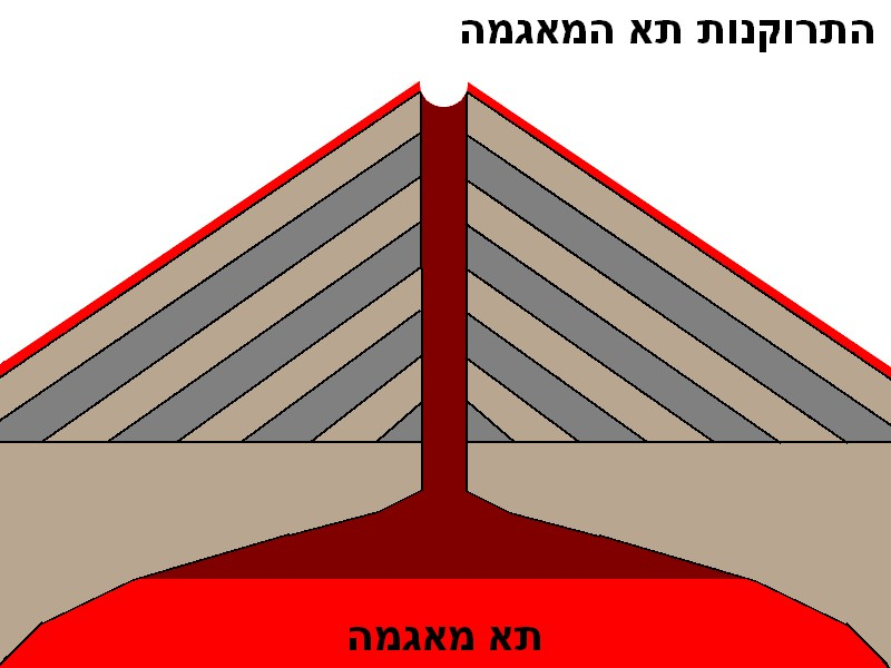 Formation of Vesuvius - stage 2/3